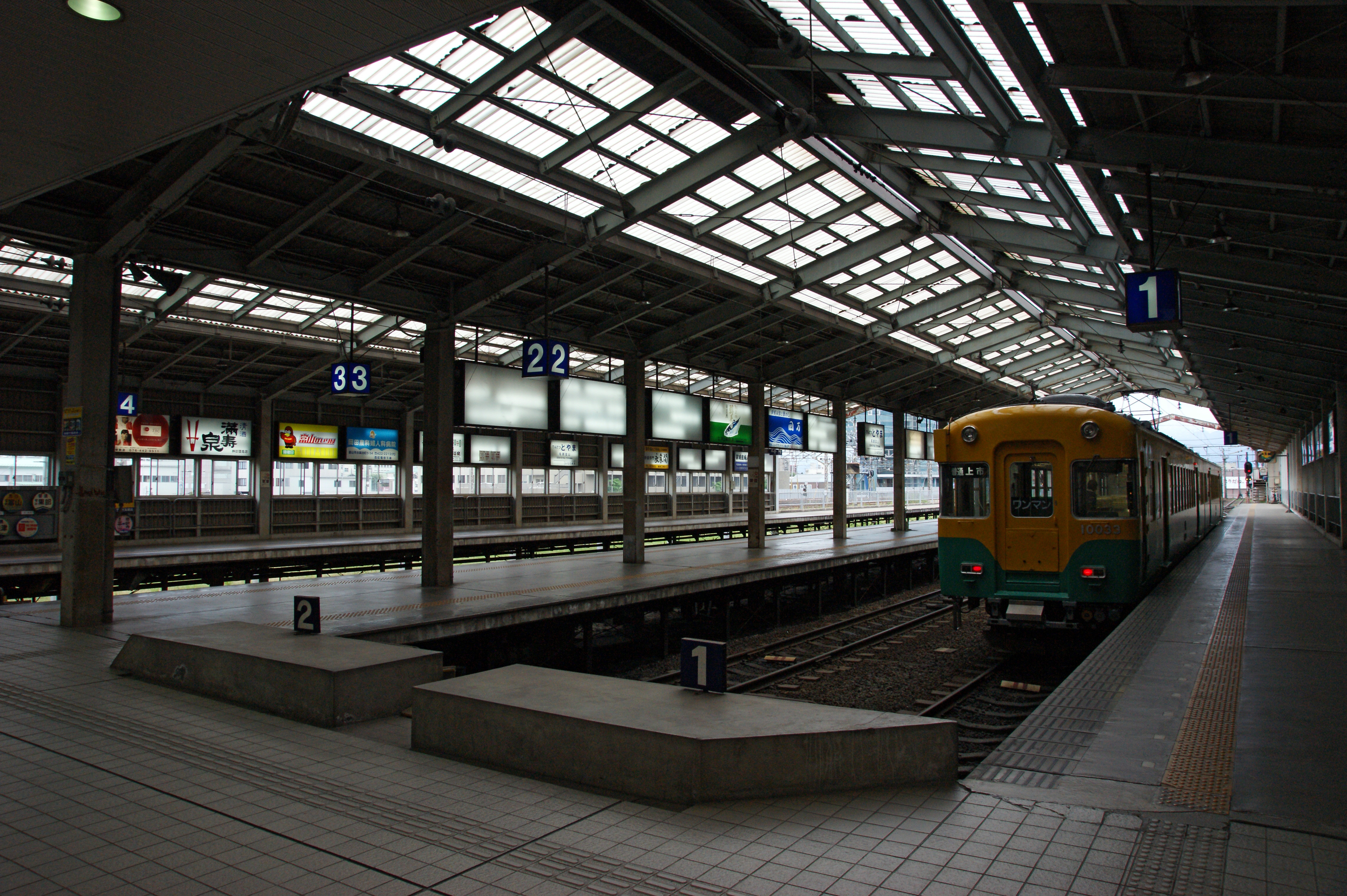 Dentetsu-Toyama Station in Toyama, Toyama prefecture, Japan